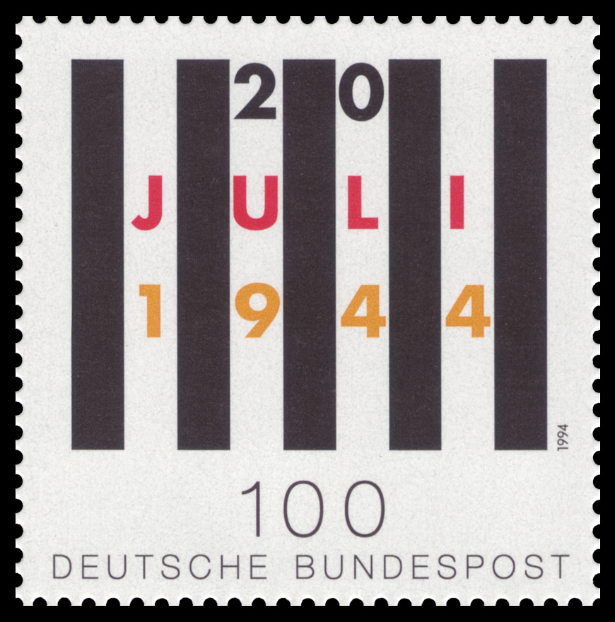 50 years of the 20 July plot against Adolf Hitler